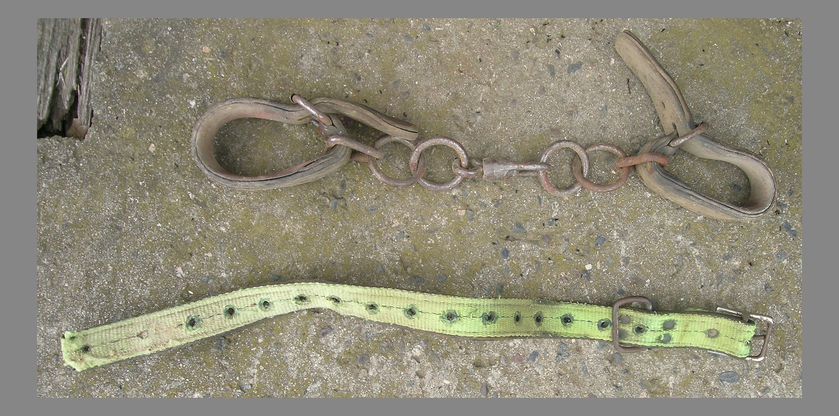 Grazing and cattle hobbles (below)